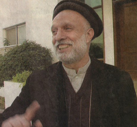 Haji Abdul Qadeer photo in Dubai 2002